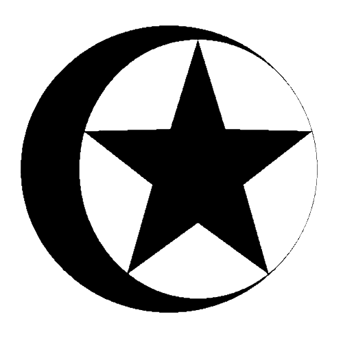 The logo is from Taiwanese Sunguang Gang(三光幫).